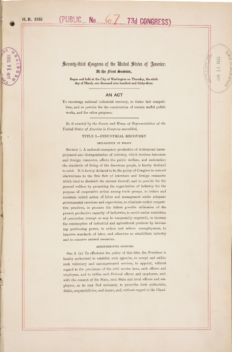 JPG image of the National Industrial Recovery Act of 1933 - "An Act to encourage national industrial recovery, to foster fair competition, and to provide for the construction of certain useful public works, and for other purposes." June 16, 1933. Enrolled Acts and Resolutions of Congress, 1789-1996; General Records of the United States Government; Record Group 11, National Archives.